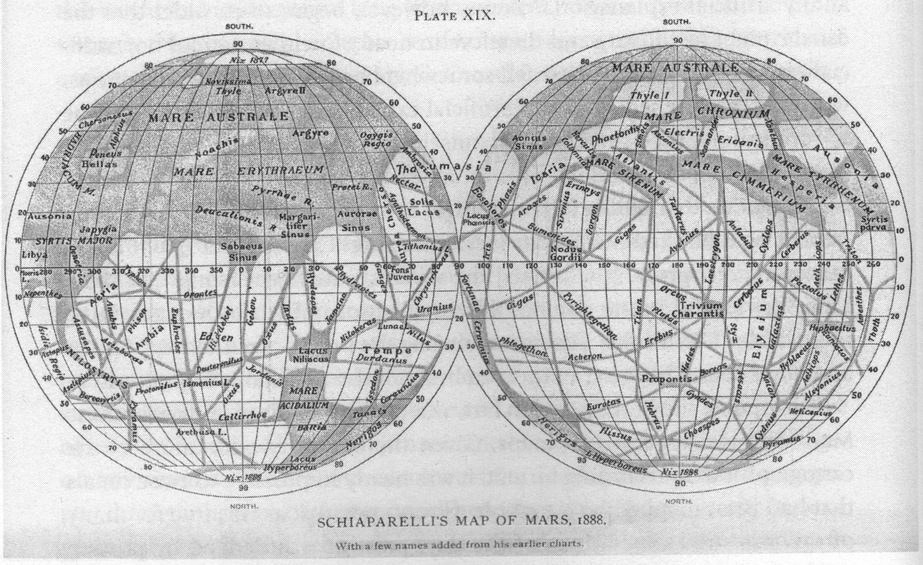 Schiaparelli Mars Map, 1877